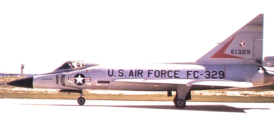 332d Fighter-Interceptor Squadron Convair F-102A-75-CO Delta Dagger 56-1329 McGuire